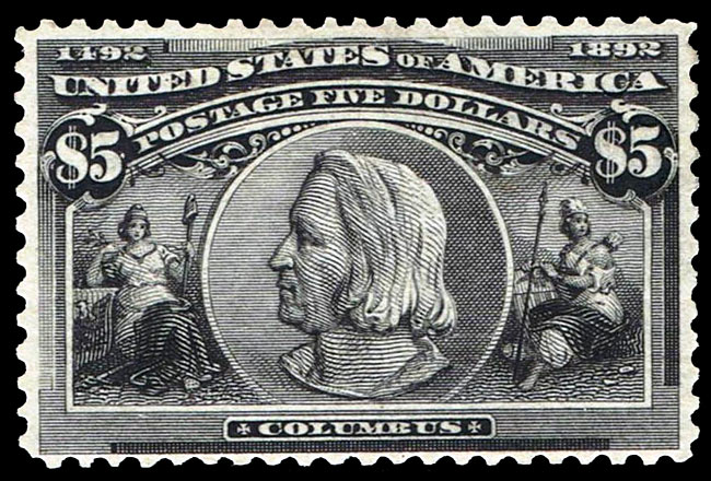 United States $5 postage stamp issued in 1892 depicting Columbus to mark the 400th anniversary of his first voyage in 1492